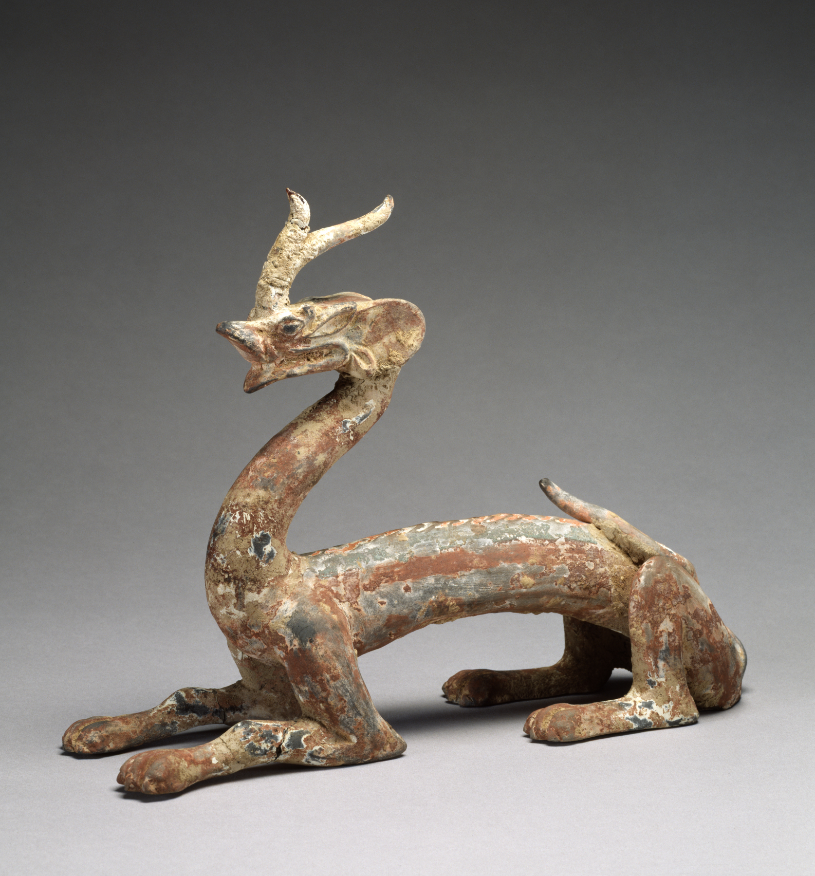 Placed in a tomb, a dragon provided a means to get to heaven. But ceramic dragons were also modeled in times of drought: "When the dragon appears, then wind and rain arise to escort him."